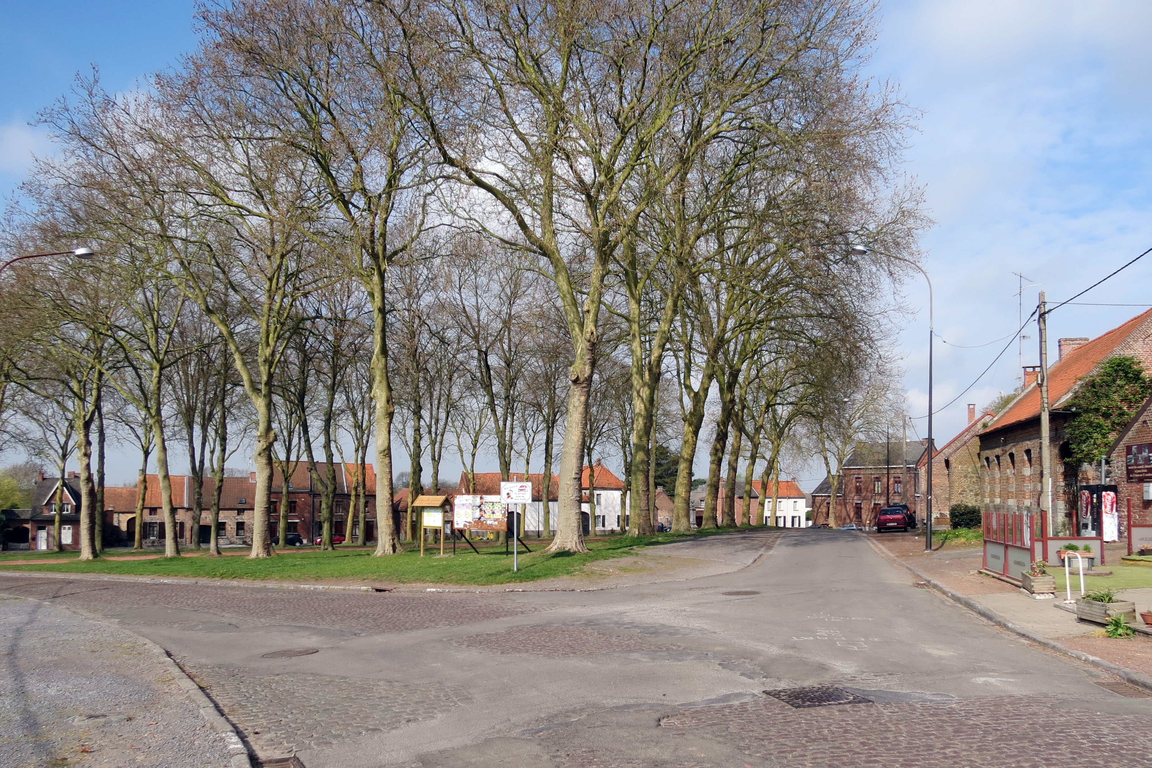 Place Fulgence Masson à Montignies-sur-roc